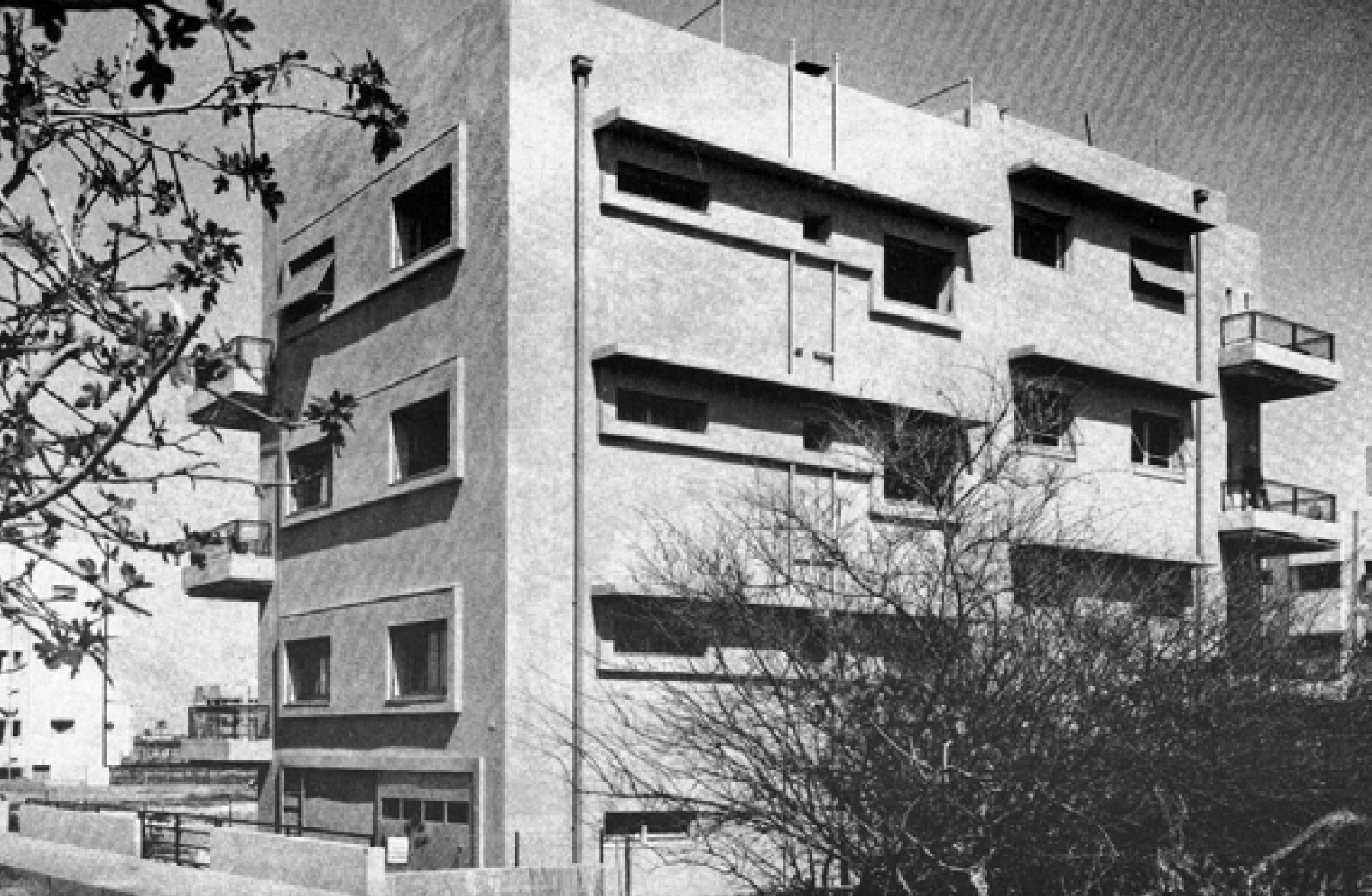 Residential building at Shpinoza St 20 in Tel Aviv, Israel. Designed by Lotte Cohn in 1936.